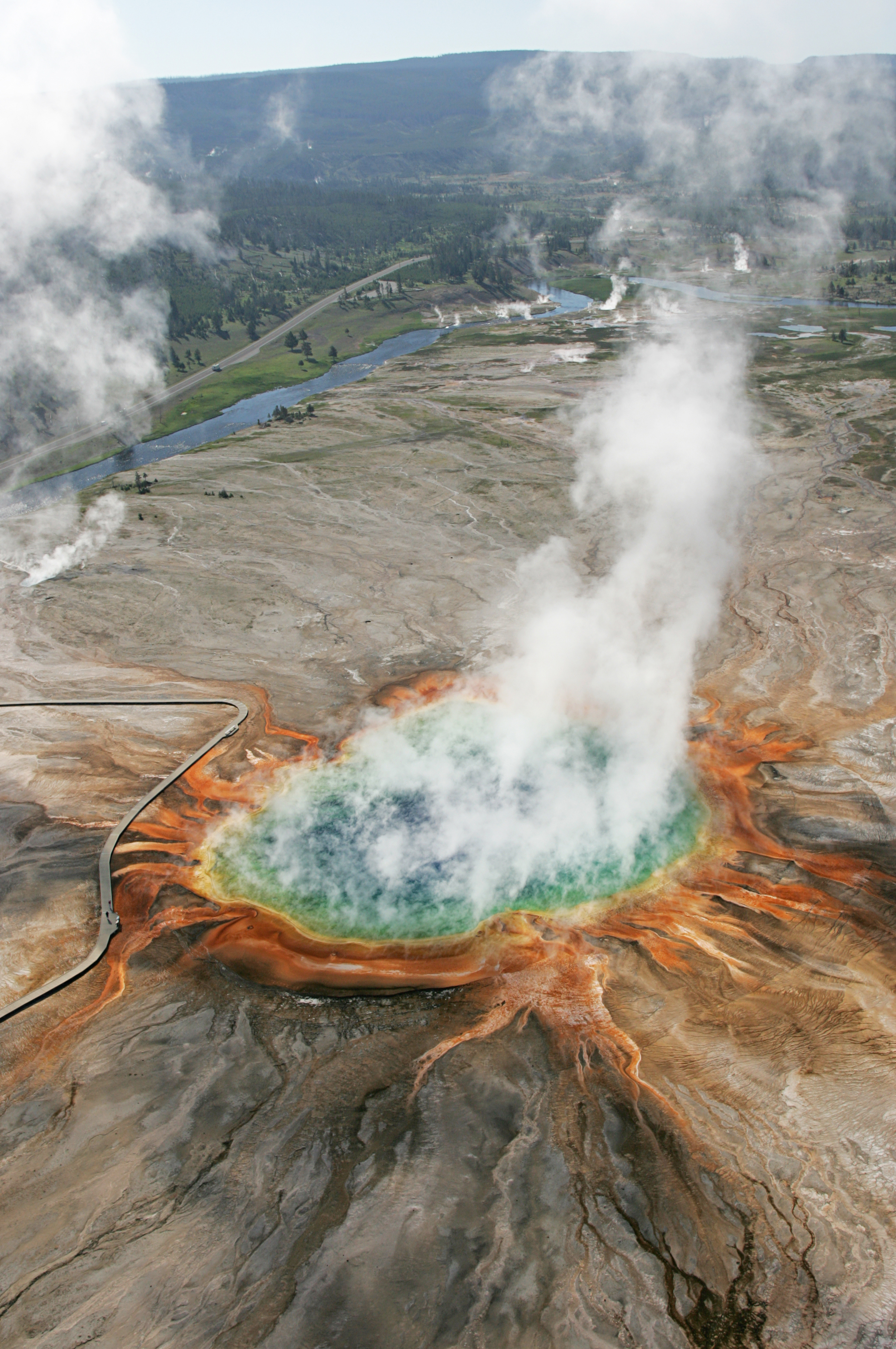 Aerial view of Grand Prismatic Spring; Jim Peaco; June 22, 2006; Catalog #20385d; Original #IT8M4078